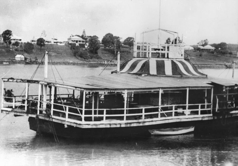 Hawthorne ferry, Brisbane, ca. 1913.